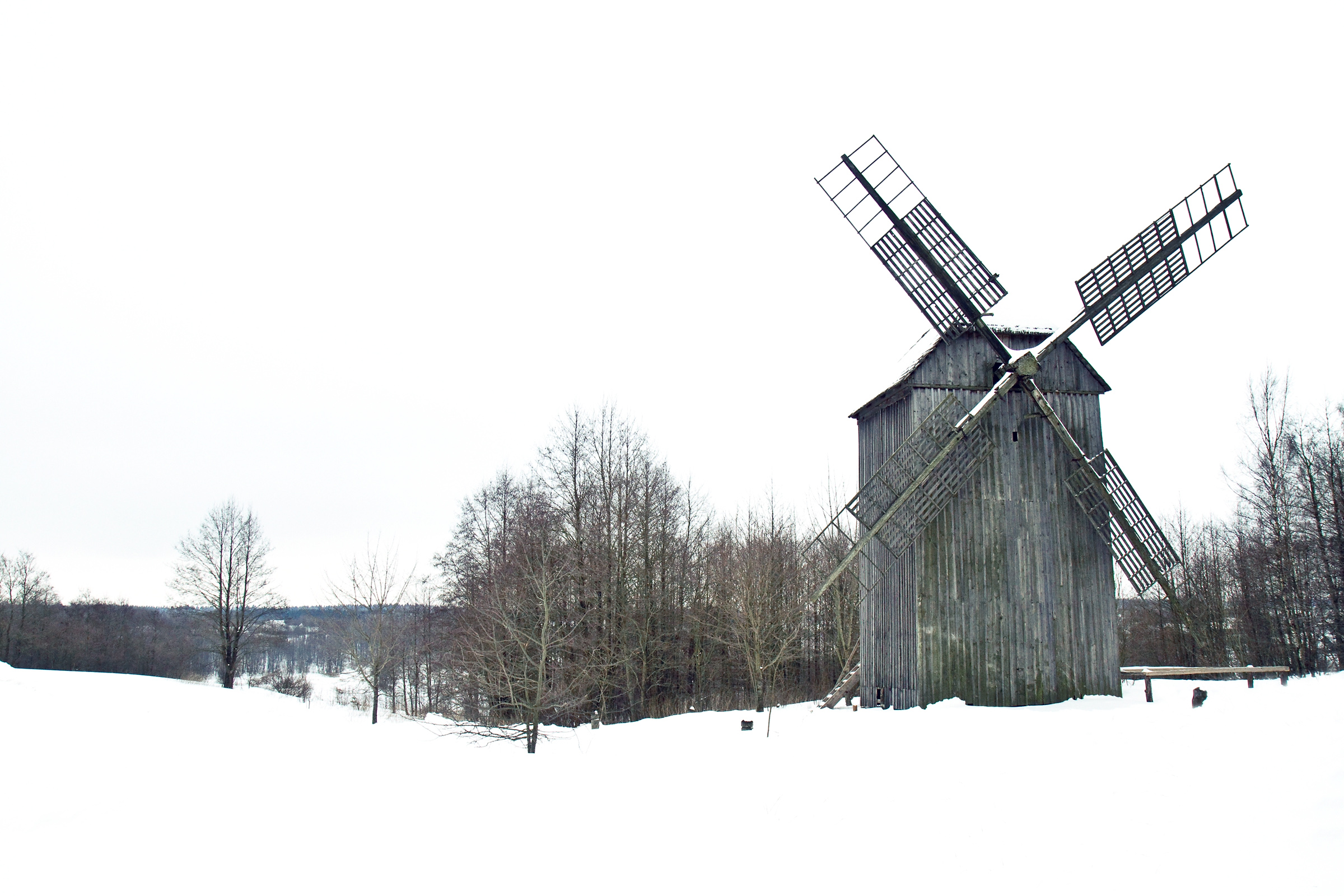 Windmill from Damatkanavičy, Kleck district. State museum of folk architecture and life, Belarus.